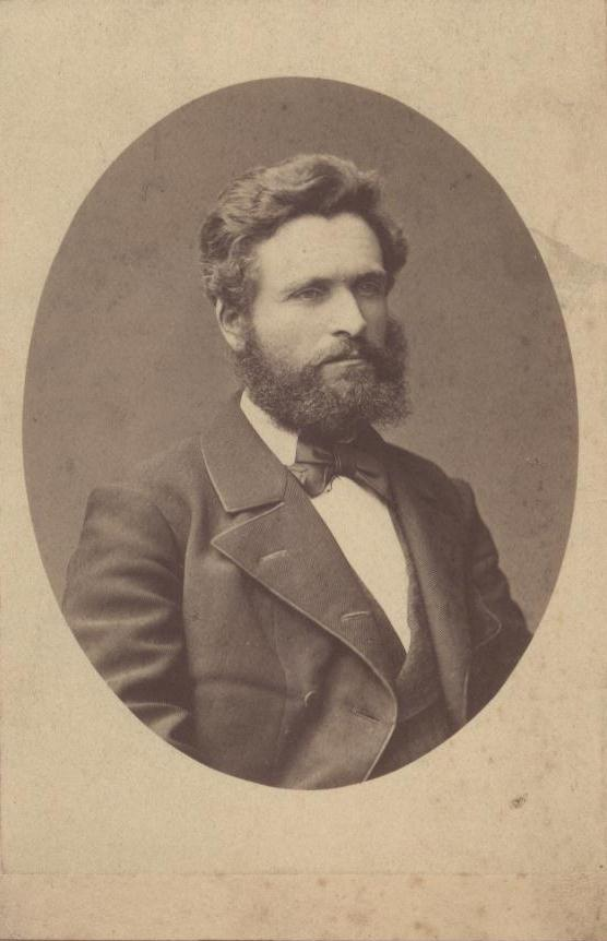 Bulgarian revolutionary and politician Dimitar Pshkov, Veliko Tarnovo, 1879